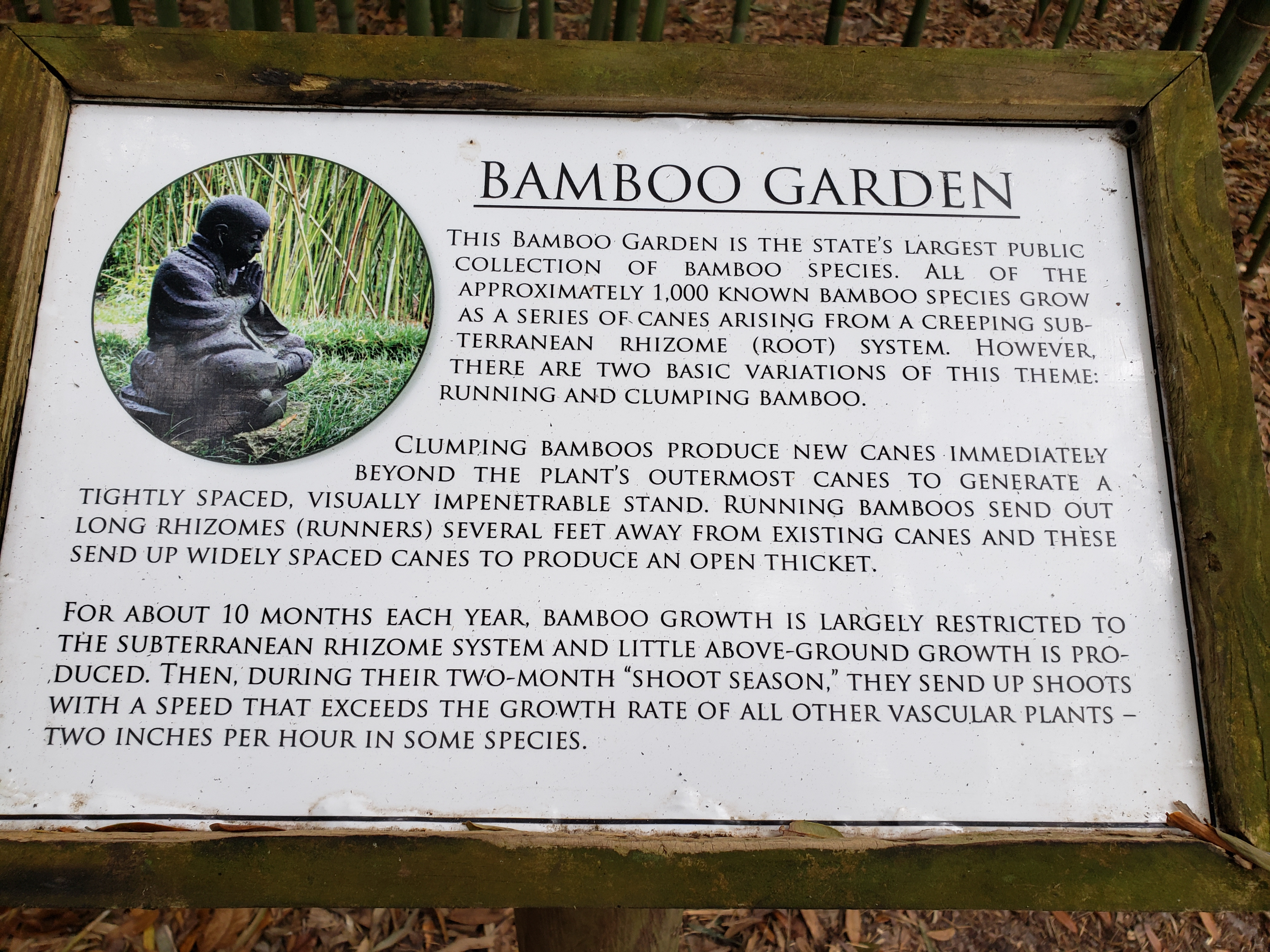 Kanapaha Bamboo Garden has the widest collection of Bamboo in Florida.